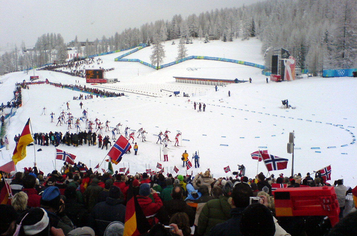 Description: Biathlon mass start race 15 km men, Torino 2006 Source: own photograph Photographer: Martin Thirolf, Euronaut Date: 25 02 2006 Camera: SonyEricsson k750i, 2MP